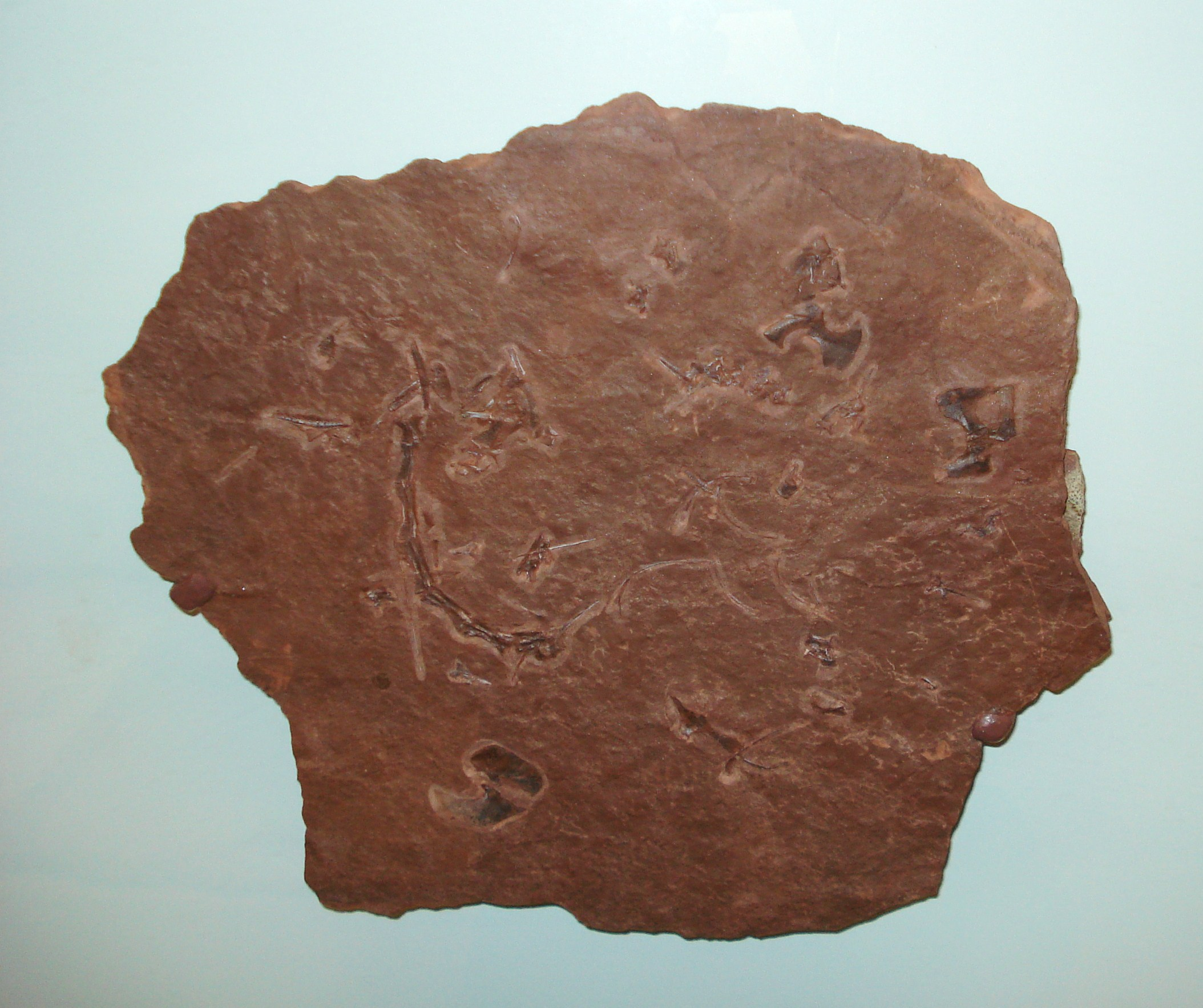 Holotype of Amotosaurus rotfeldensis FRASER & RIEPPEL 2006 (SMNS 50830), previously referred to Tanystropheus antiquus VON HUENE 1907, from the Upper Bundsandstein of the Kössen quarry near Rotfelden, Black Forest, Baden-Württemberg, Germany. The specimen shows a series of the characteristic elongated cervical vertebrae of tanystropheids and associated jaw and a few further skull bones (left center), elements of the limb girdles (left bottom and right top), as well as scattered dorsal vertebrae and ribs.[1]